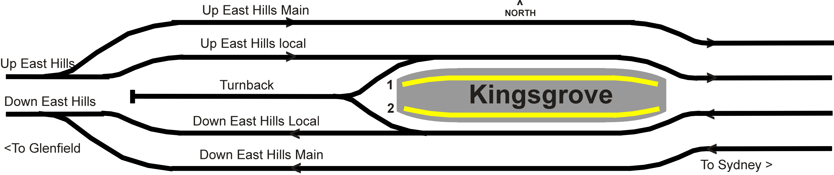 Track layout at Kingsgrove railway station, Sydney